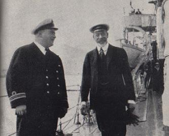 WNT Beckett